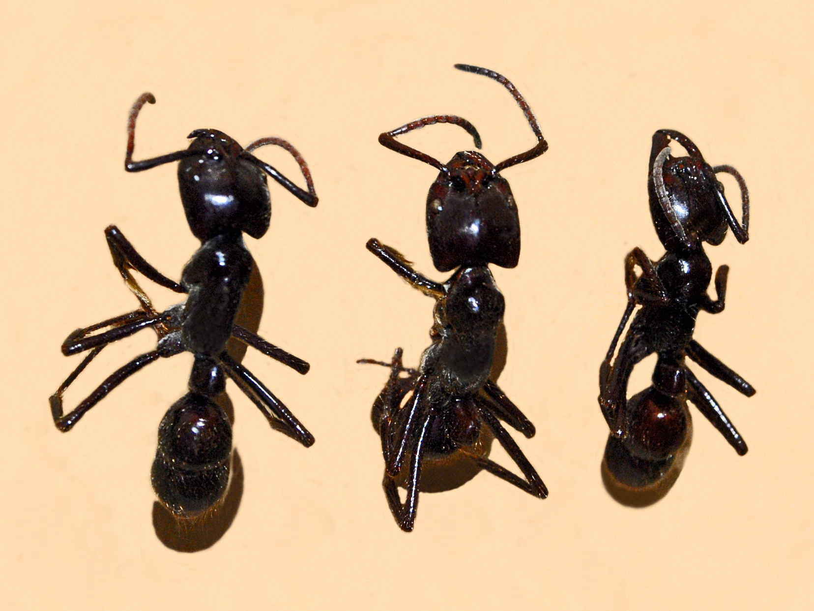 Dinoponera gigantea. Museum specimen